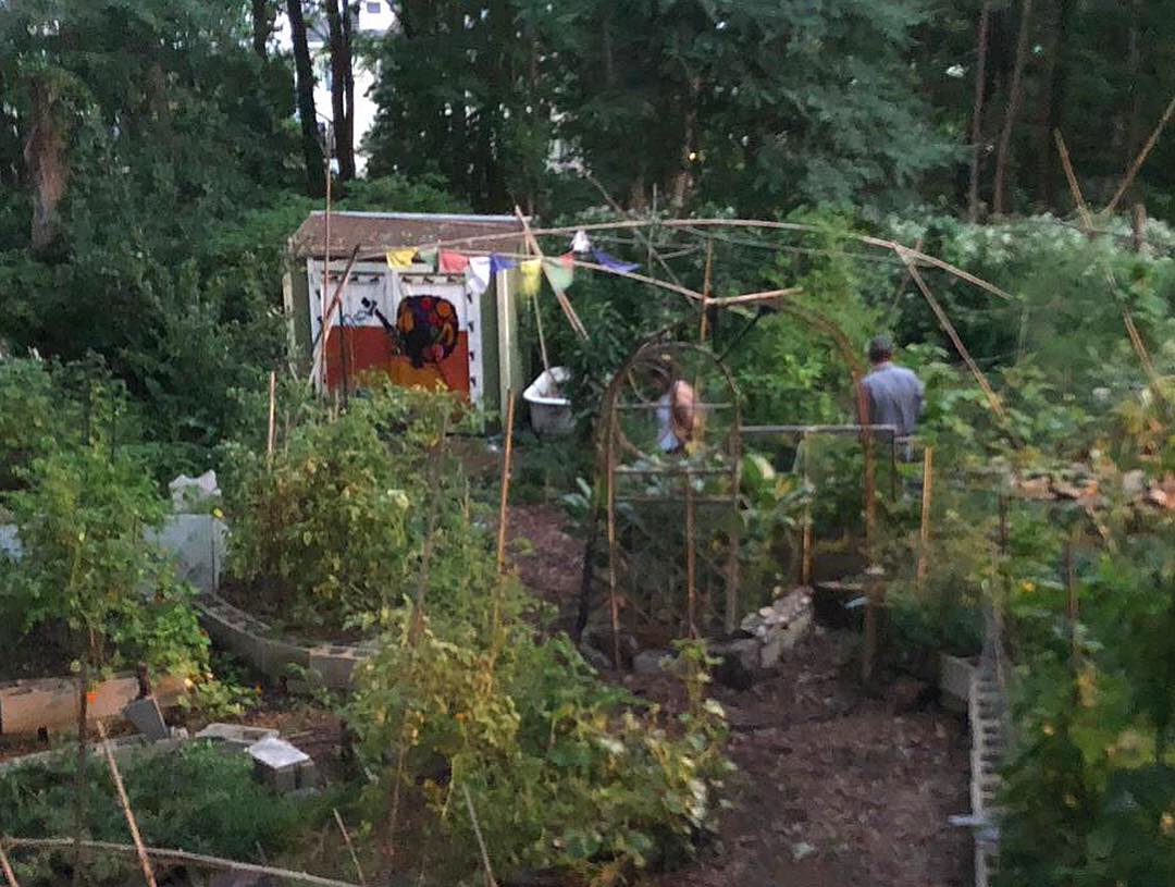 Photo taken in September, 2018 of the gardens located at the Old Oak Dojo in Jamaica Plain, Boston, MA, USA.